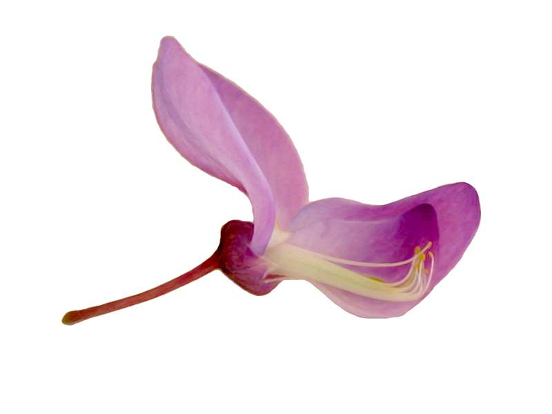 Jpeg version of Image:Wisteria_sinensis_nobackground.xcf, part of a graphics lab project.